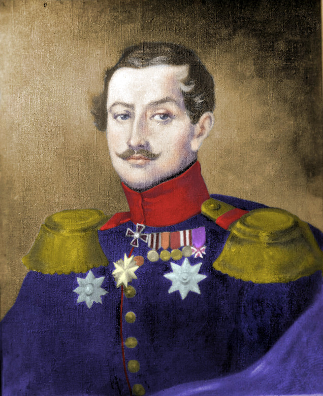 Prince Alexander Chavchavadze, 1820s Unknown author